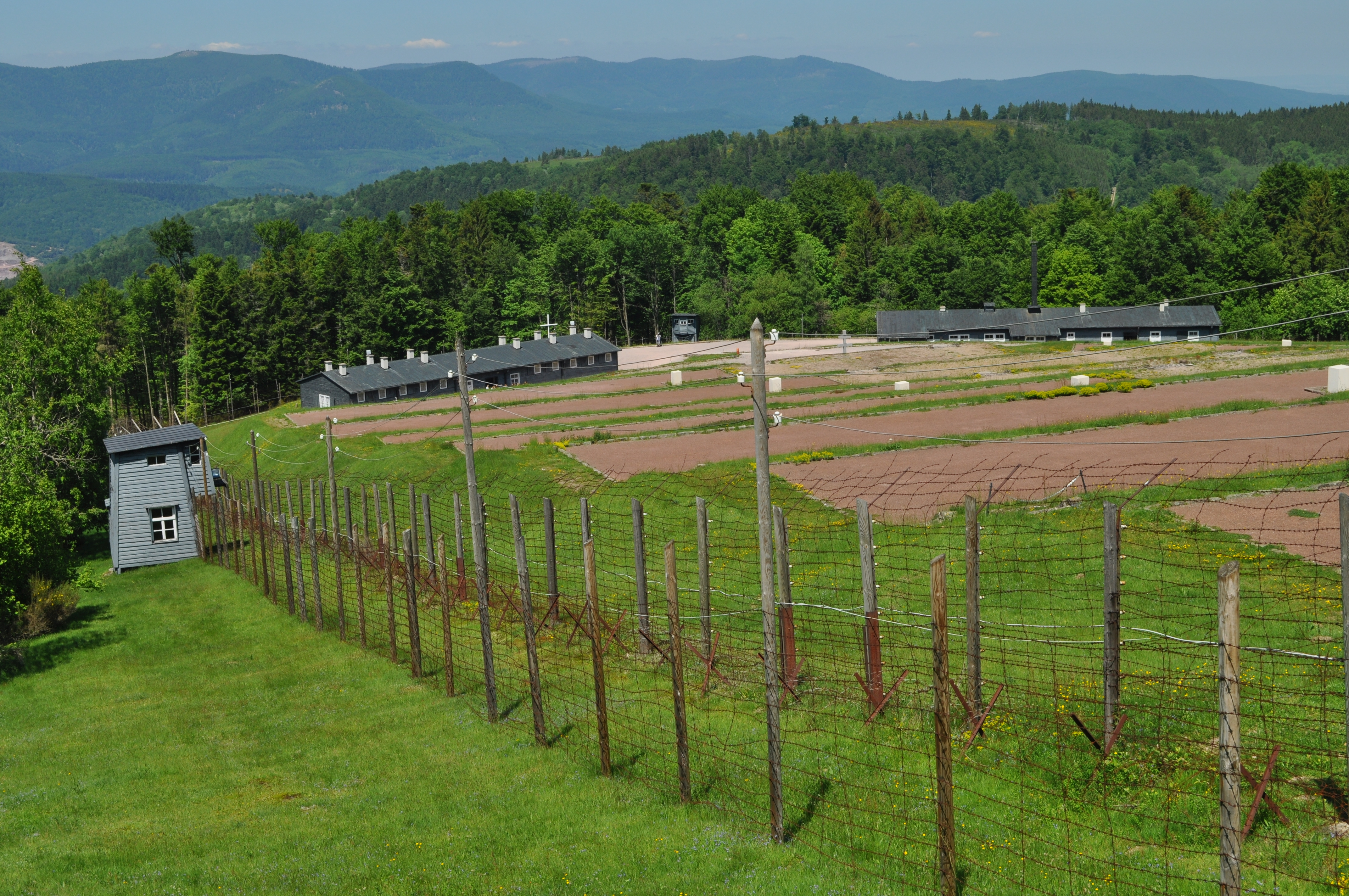 Overview of Struthof Concentration Camp in Natzweiler, France, only Nazi concentration camp on present day French soil. Located in the Alsace Region near the village of Natzwiller and the town of Schirmeck, about 50 km (31 mi) south west from the city of Strasbourg. Natzweiler-Struthof was the only concentration camp established by the Nazis on present-day French territory